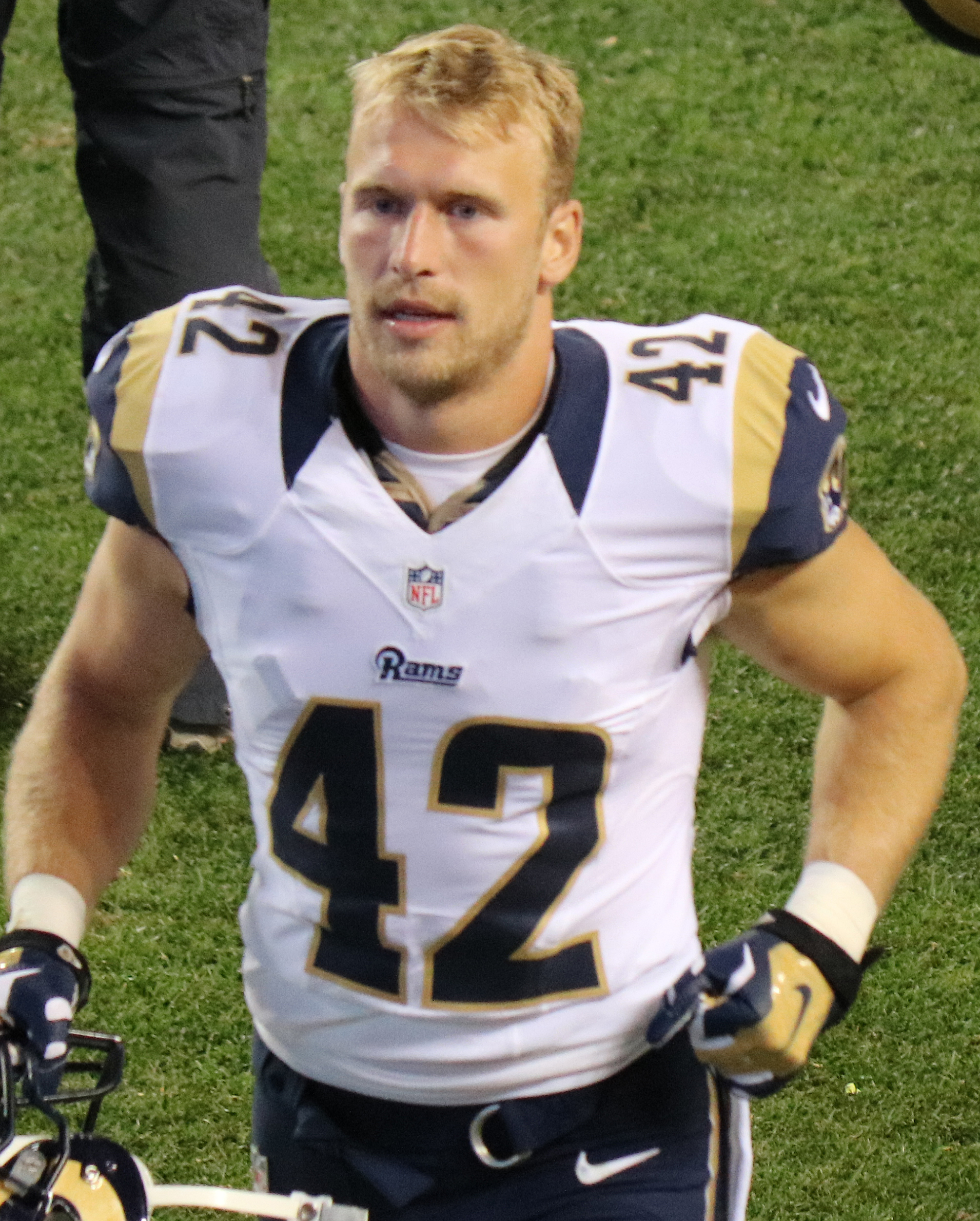 Jordan Kovacs, a player on the National Football League.